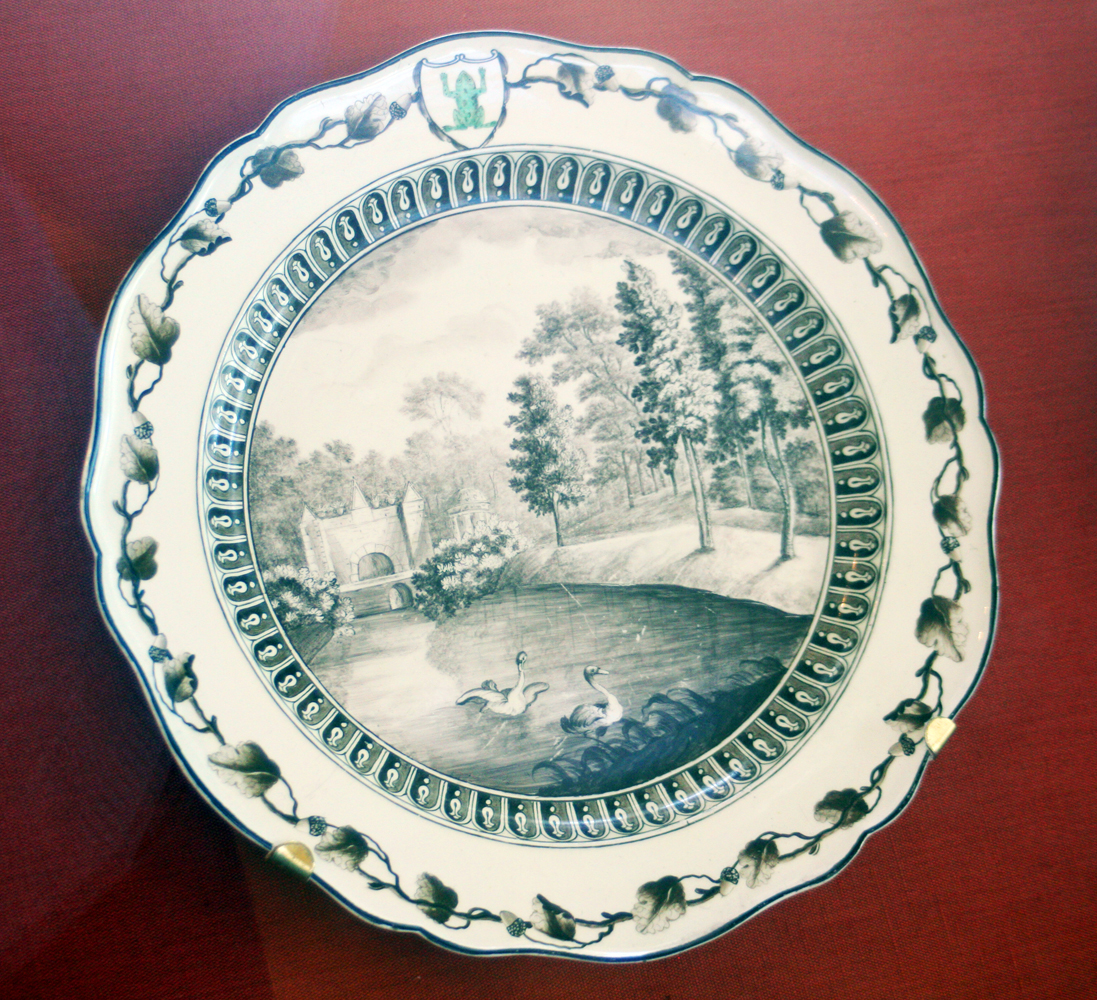 A platter from the Green Frog Service by Wedgwood.